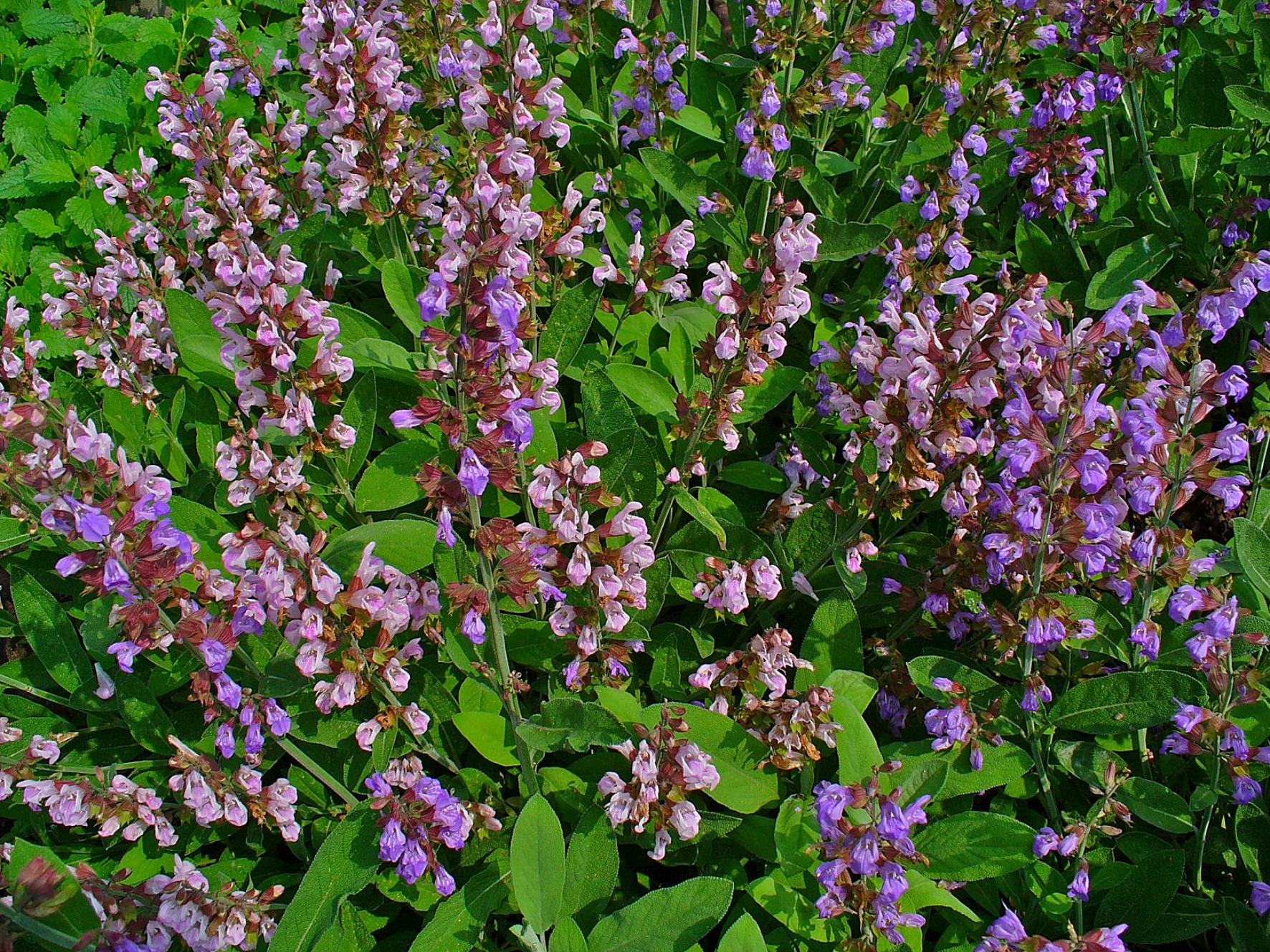 Salvia officinalis, Lamiaceae, Garden Sage, Common Sage, habitus. Botanical Garden KIT, Karlsruhe, Germany.